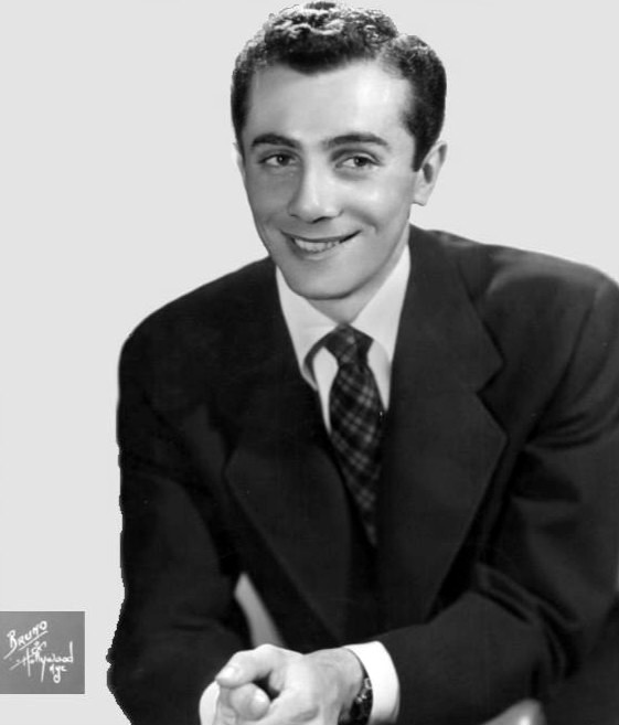 Publicity photo of singer Al Martino.